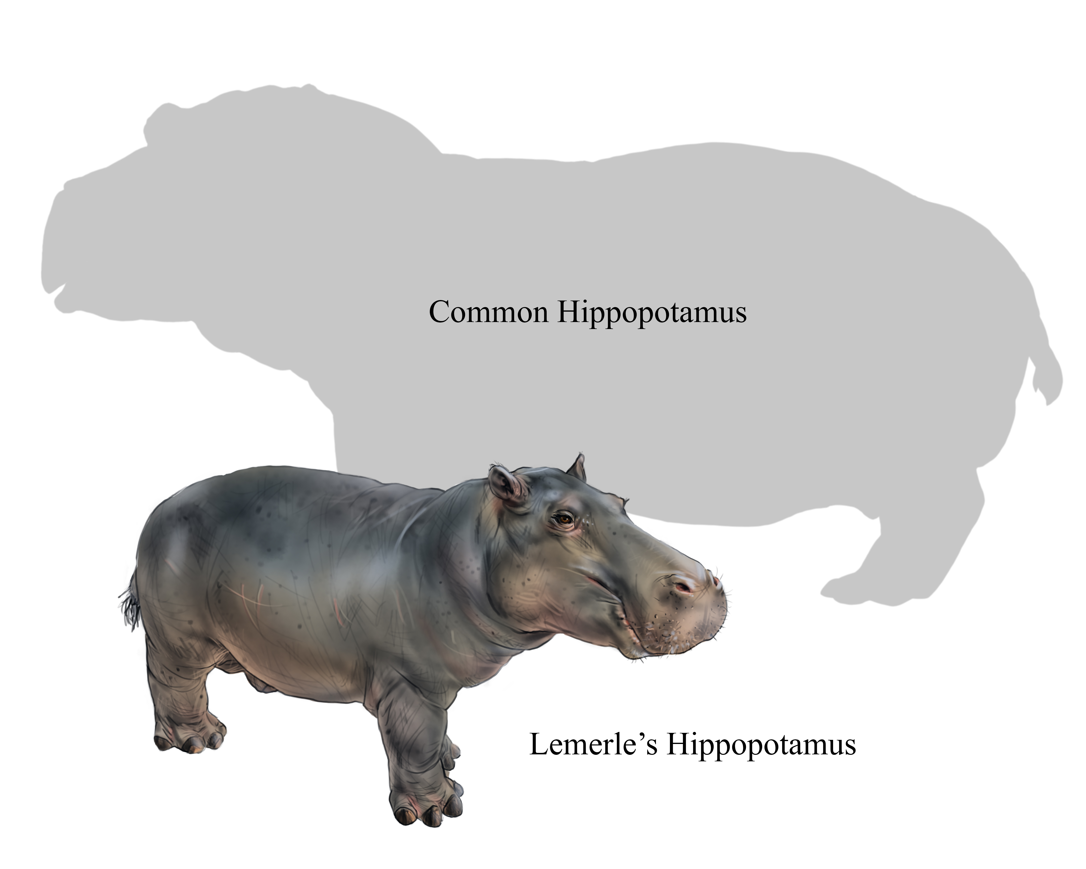 Speculative reconstruction of Lemerle's hippopotamus